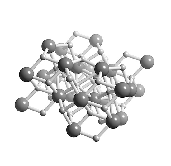 Calcium hydride (CaH2).